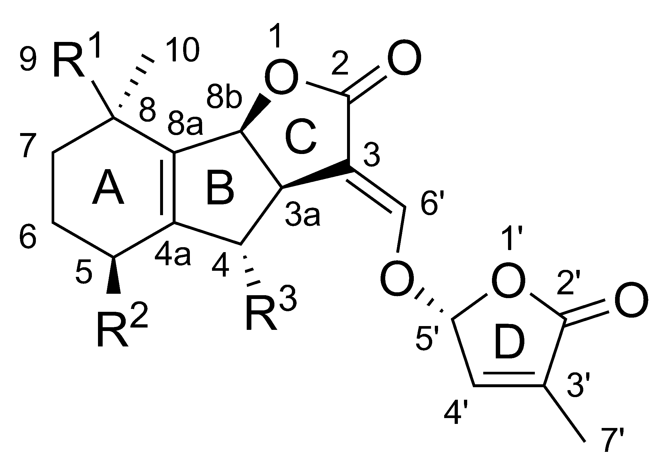 Chemical structure of (+)-strigol, a strigolactone